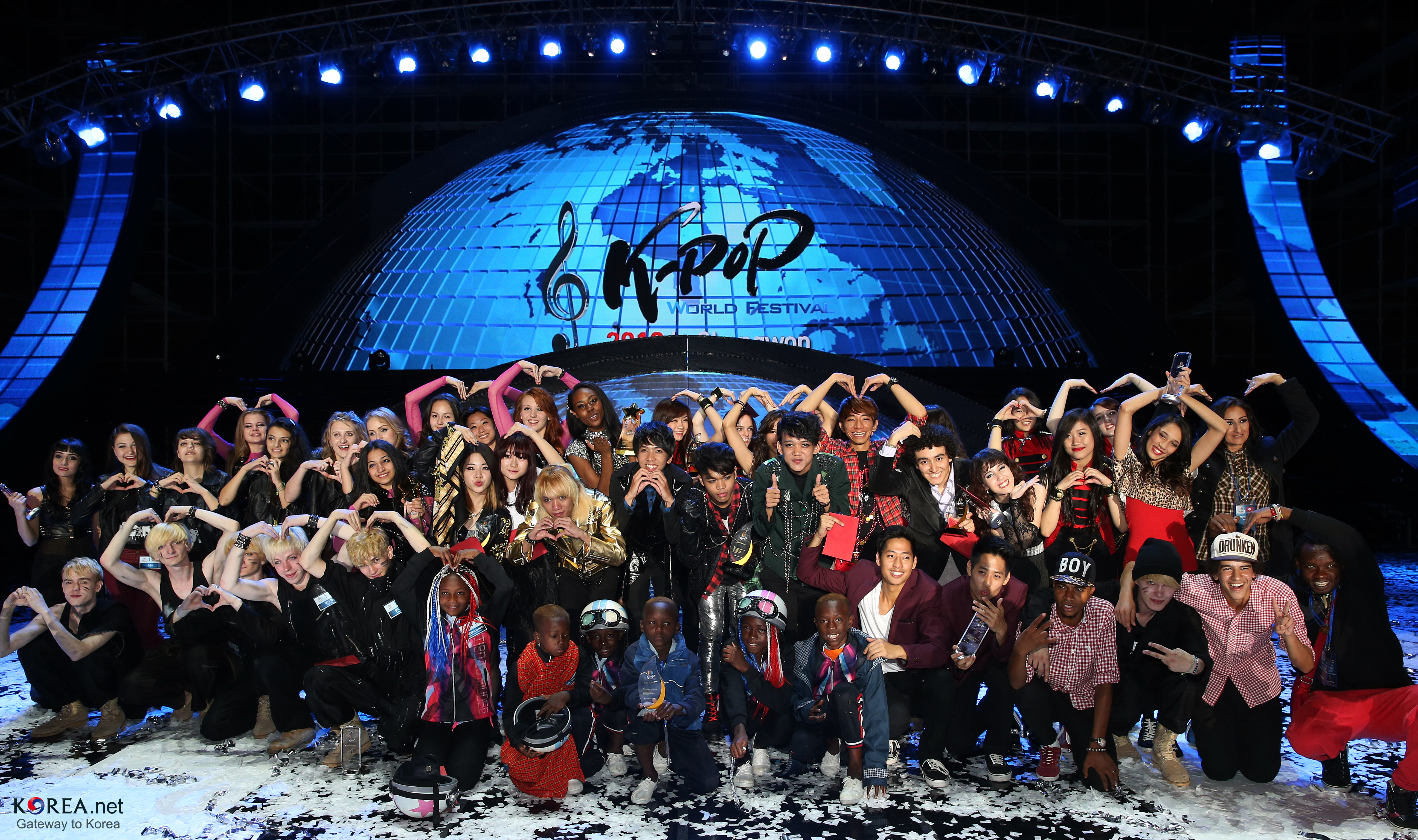 2013 K-POP World Festival in Changwon October 20, 2013 Changwon-si, Gyengsangnam-do Related Articles Cheong Wa Dae K-Pop World Festival unites global fans -English K-Pop World Festival unites global fans -中文 “2013 K-POP世界庆典” 用K-POP连结全世界 -Vietnamese Cả thế giới hội tụ tại “K-pop World Festival 2013” -日本語 「Kポップワールド・フェスティバル2013」、Kポップで世界が一つに -Deutsch „K-Pop World Festival” bringt internationale Fans zusammen -Francais Un festival mondial de la K-Pop 2013 de haute volée -Russian K-Pop World Festival объединяет фанатов со всего мира -Arabic المهرجان العالمي للبوب الكوري يوحد الجماهي Ministry of Culture, Sports and Tourism Korean Culture and Information Service ( Jeon Han 2013 제3회 K-POP 월드페스티벌 2013-10-20 경상남도, 창원시 문화체육관광부 해외문화홍보원 코리아넷 전한